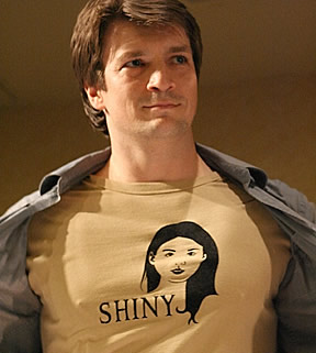 Nathan Fillion at the 2005 Serenity "flanvention".